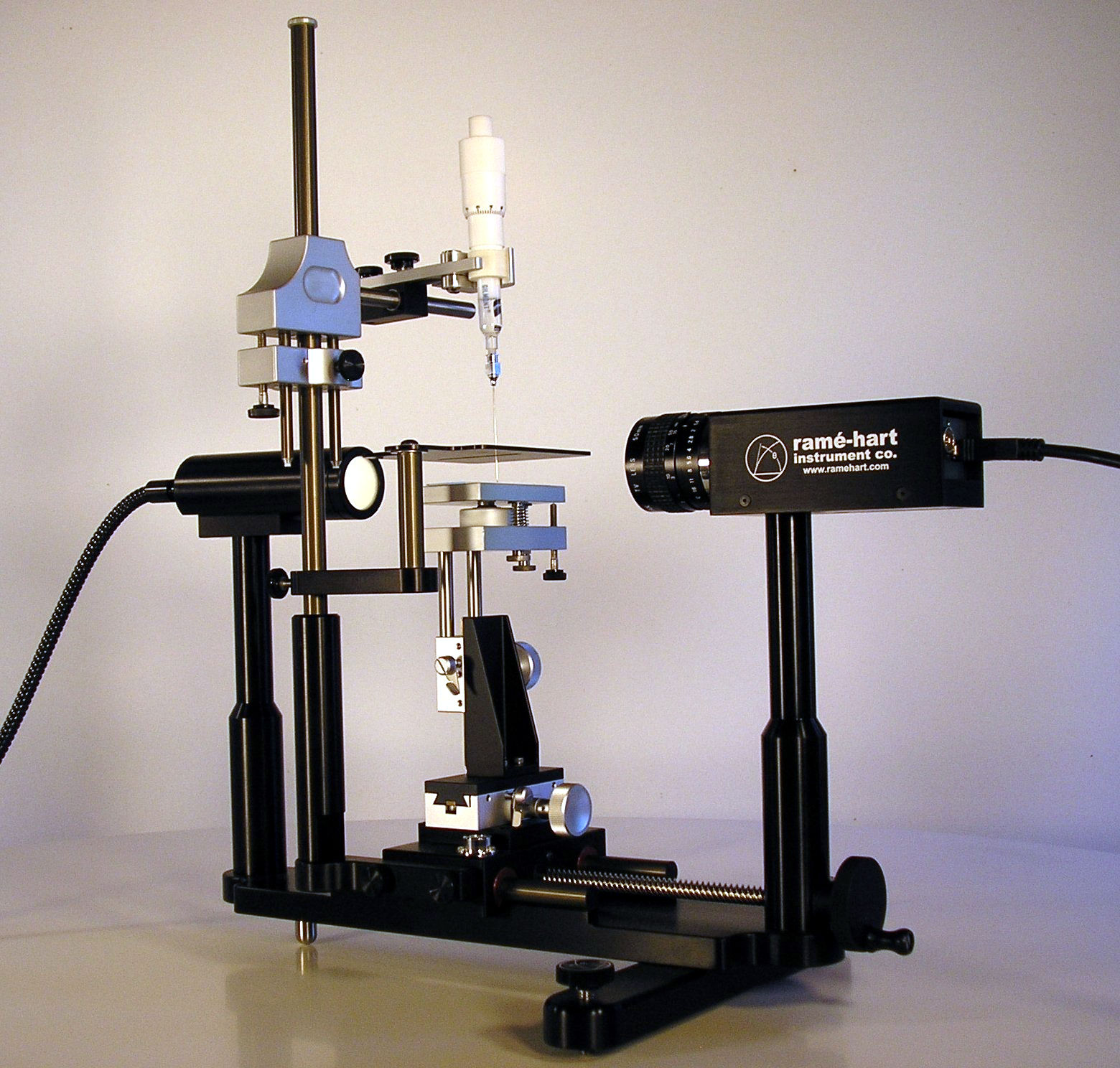 Image of a ramé-hart Contact Angle Goniometer / Tensiometer